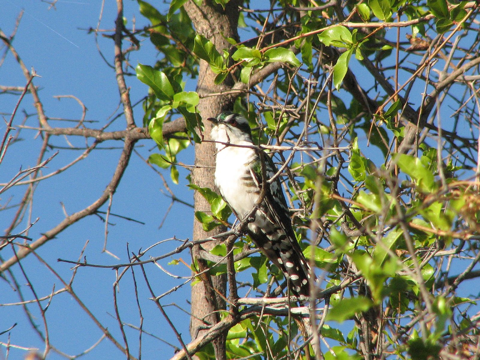 Dideric Cuckoo Chrysococcyx caprius, Namibia